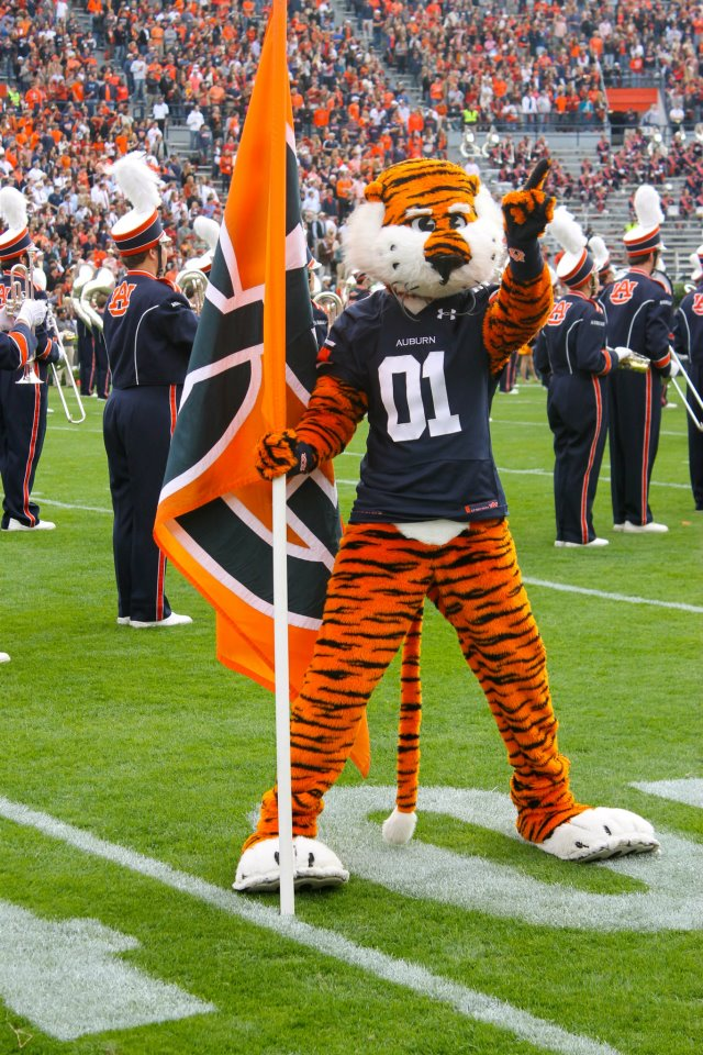 Aubie holding an Auburn Flag in Jordan-Hare Stadium